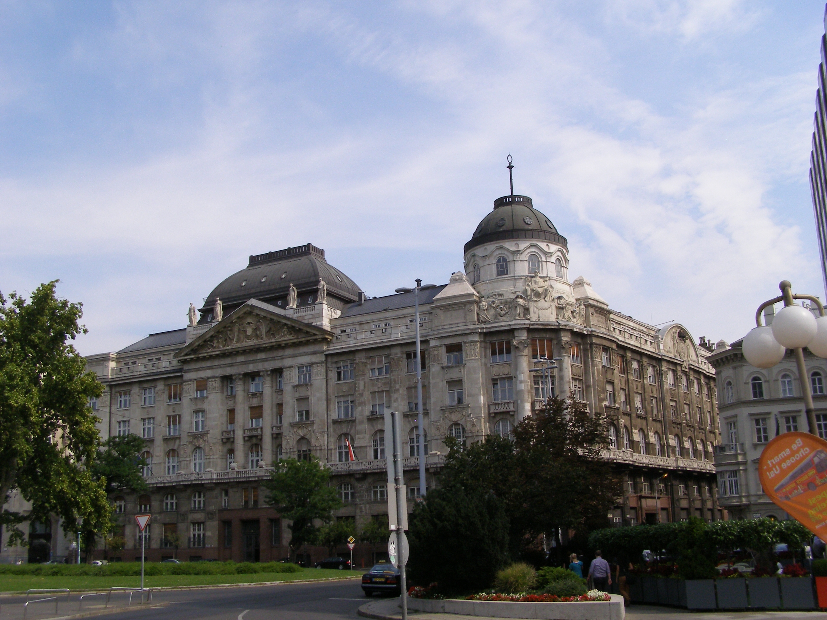 Budapest - a palace in Roosevelt Square; 5th district Belváros-Lipótváros